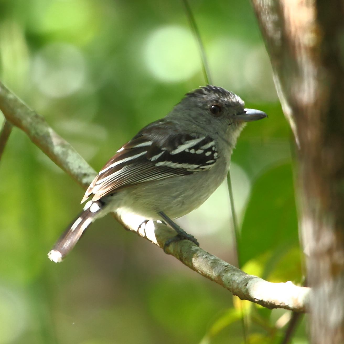 Planalto Slaty-Antshrike (male) at Chapada dos Guimarães - MT - Brazil